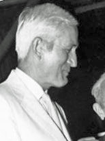 Norman Foster Ramsey, 1970 Pugwash encounter and tour held at NAL.